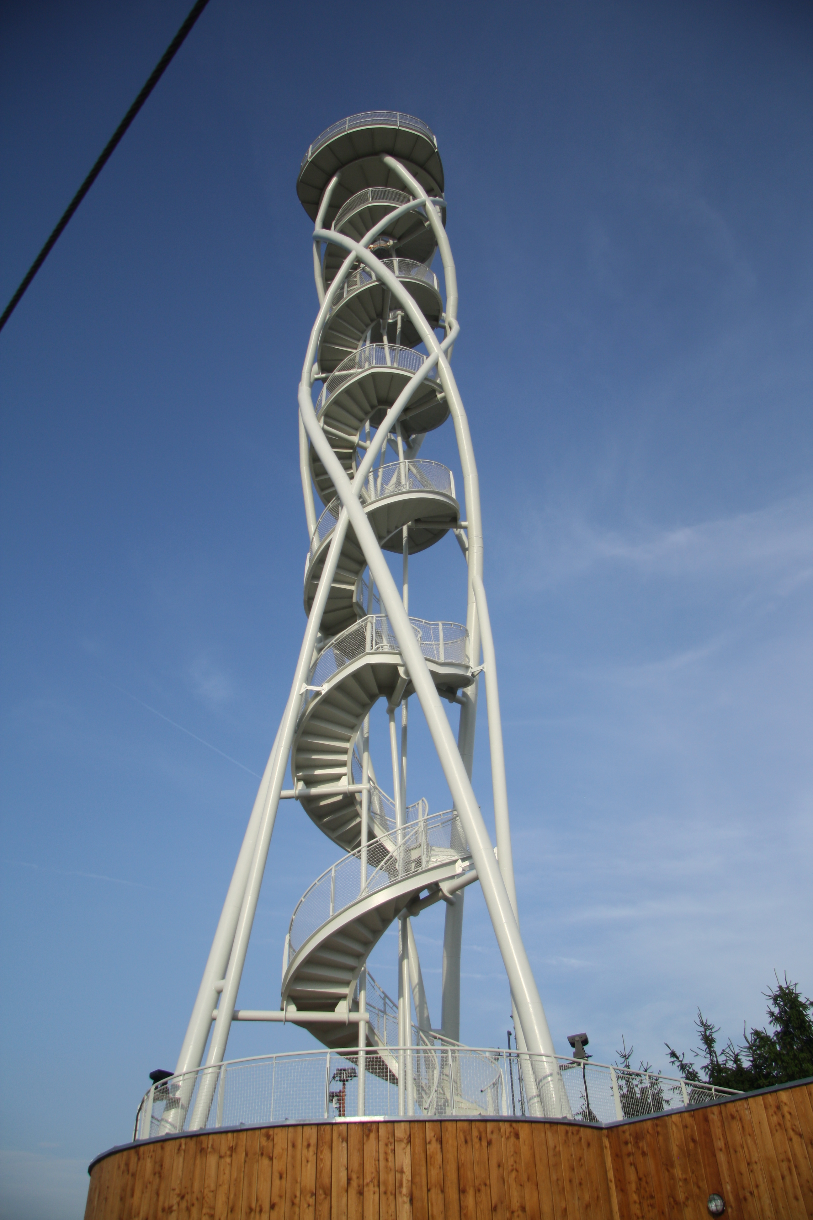 Overview of viewtower at Fajtův kopec in Velké Meziříčí, Žďár nad Sázavou District.